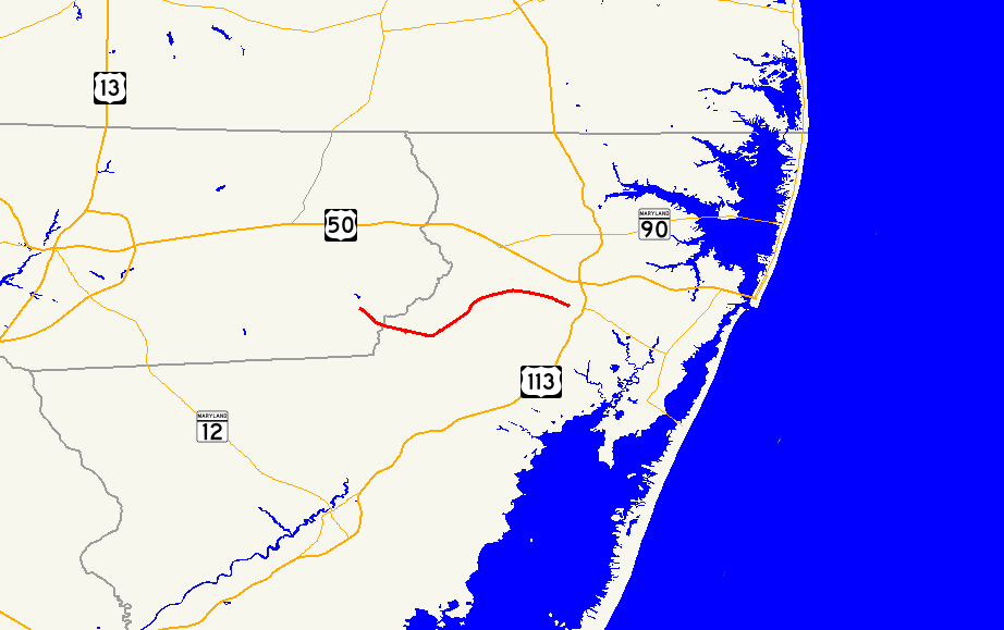 Map of Maryland 374